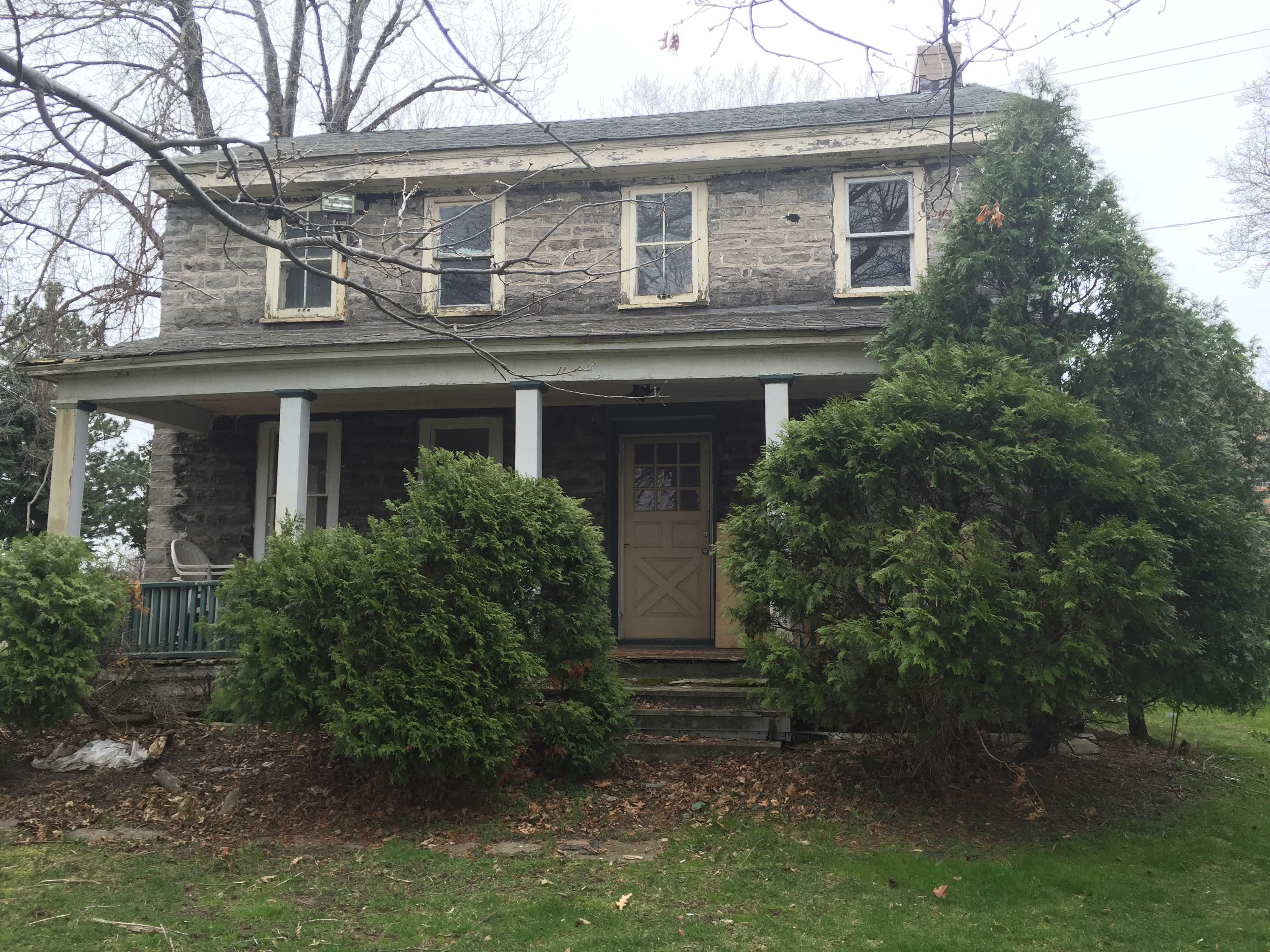 Two Story limestone Pennsylvanian German-Swiss design house built 1822-1823 in Buffalo NY.